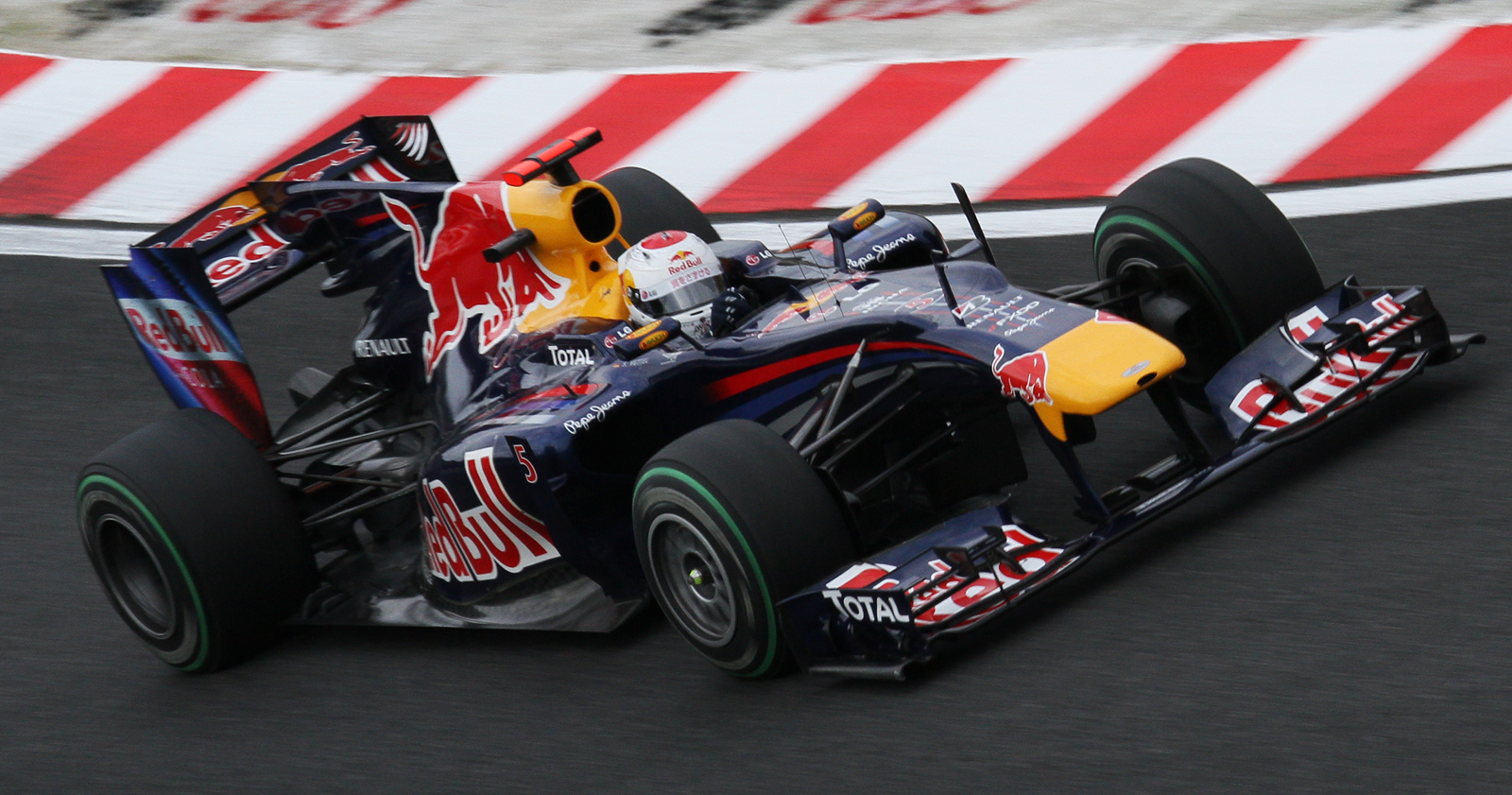 Formula One 2010 Rd.16 Japanese GP: Sebastian Vettel (Red BUll) during Friday 2nd Free Practice session.